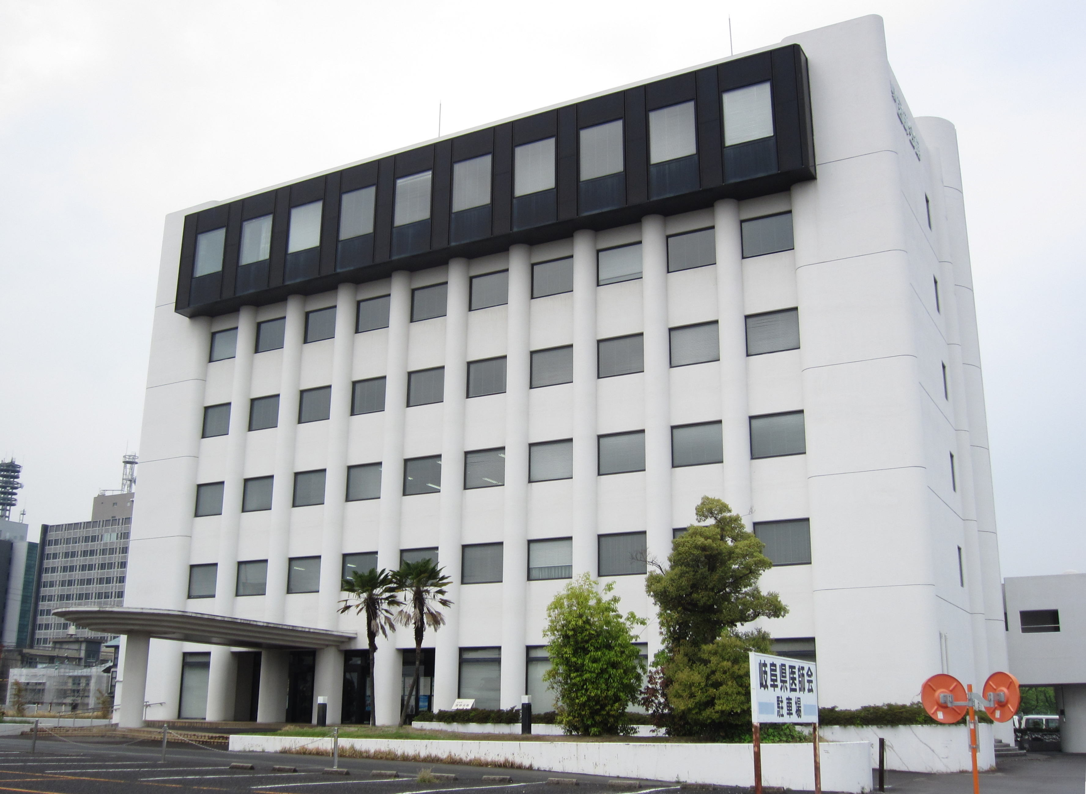 Gifu Doctor Bank